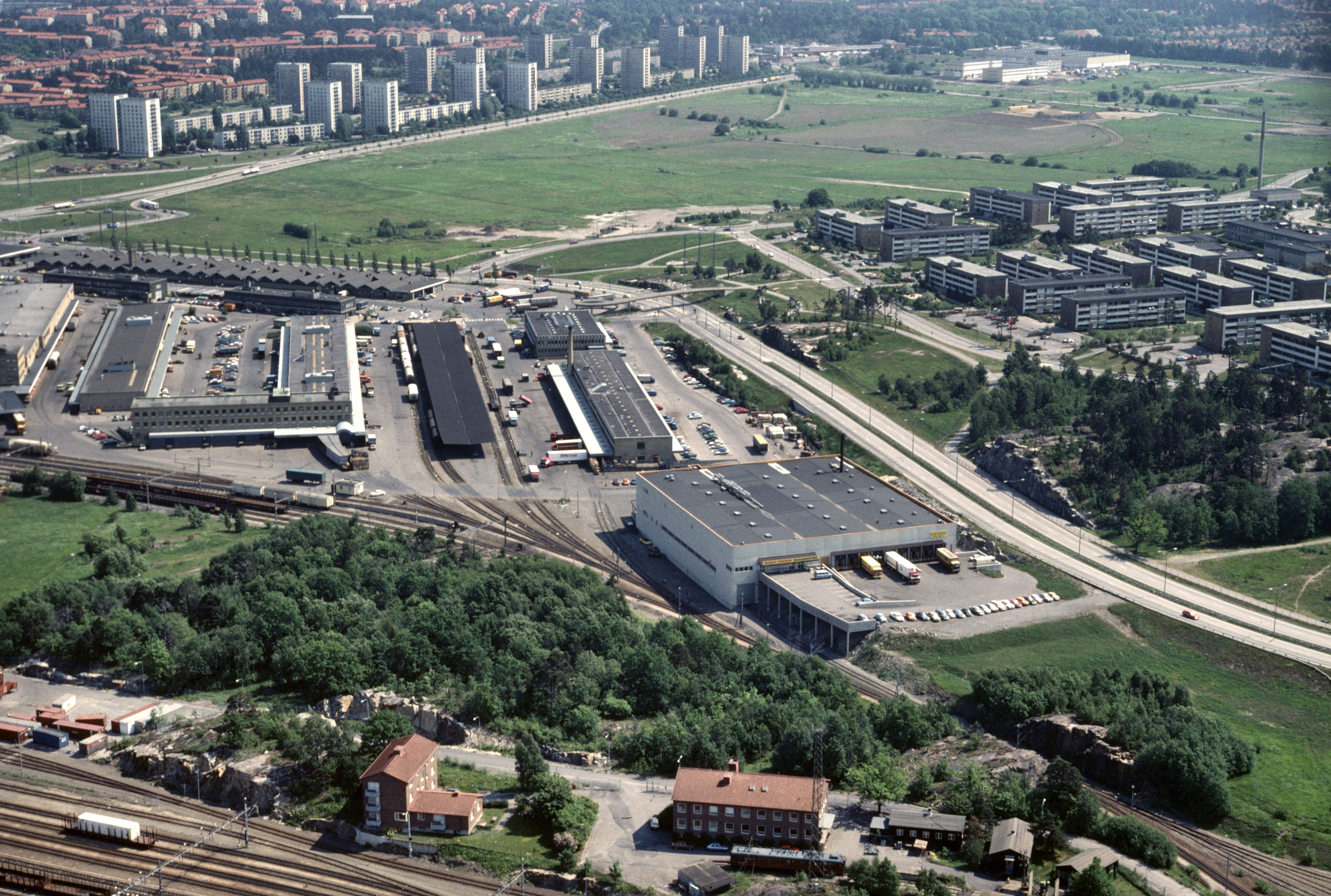 FOTOGRAFIFlygbild från väster över Årsta partihallar, Östbergabackarna och Årstafältet med Valla gärde överst till vänster. 1980-1980 FOTOGRAF: Fredriksson, Göran H.BILDNUMMER: Dia 3581Stadsmuseet i Stockholm